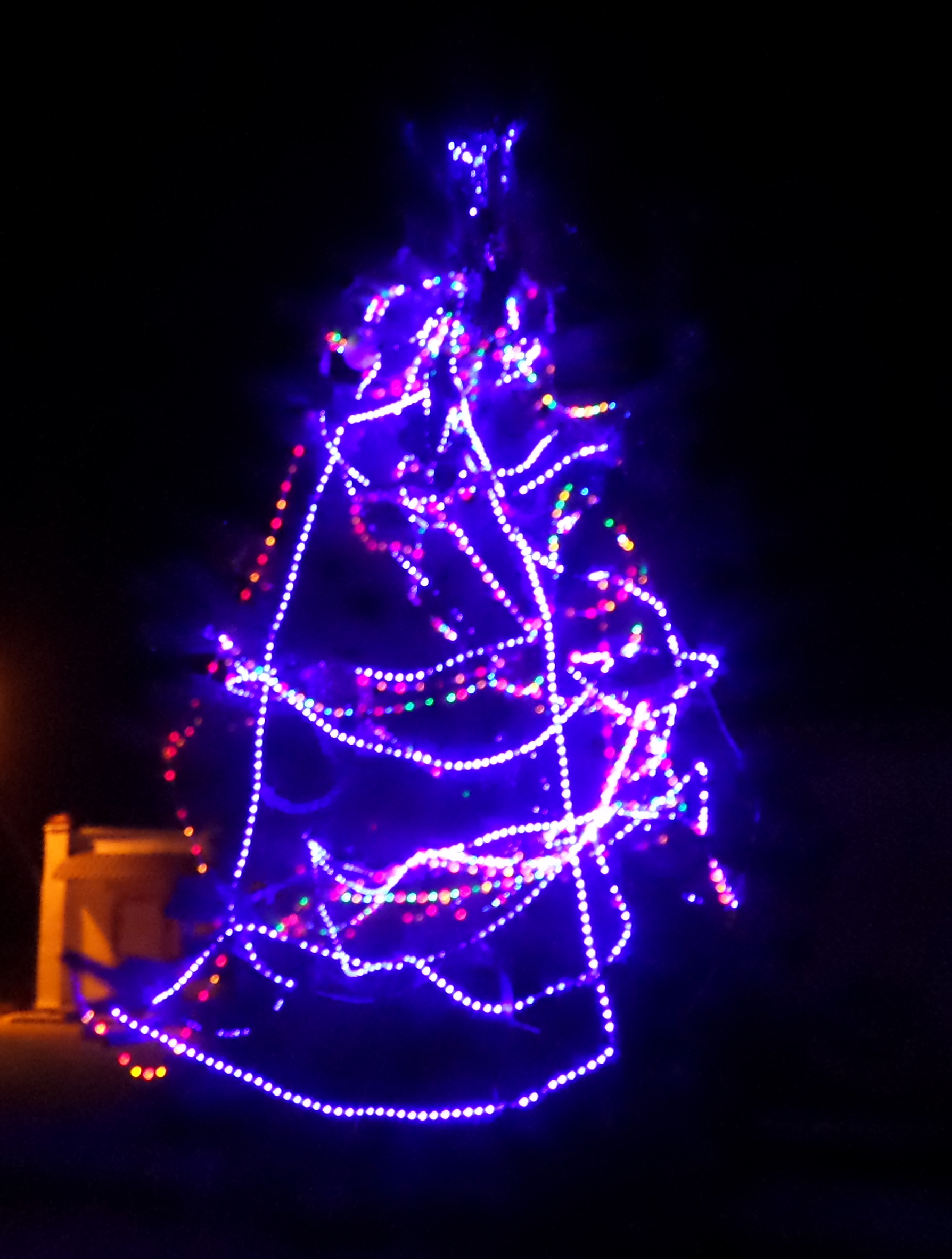 Source = Own work | Author = Eugene Zvarich